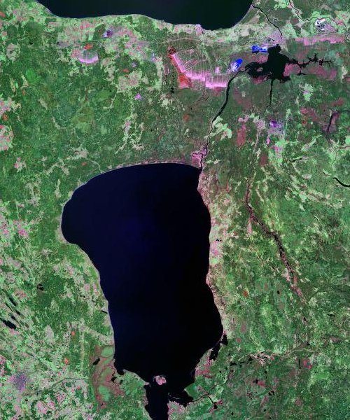 Lake Peipsi - Landsat satellite photo (circa 2000) Source: NASA, public domain Photo generated using